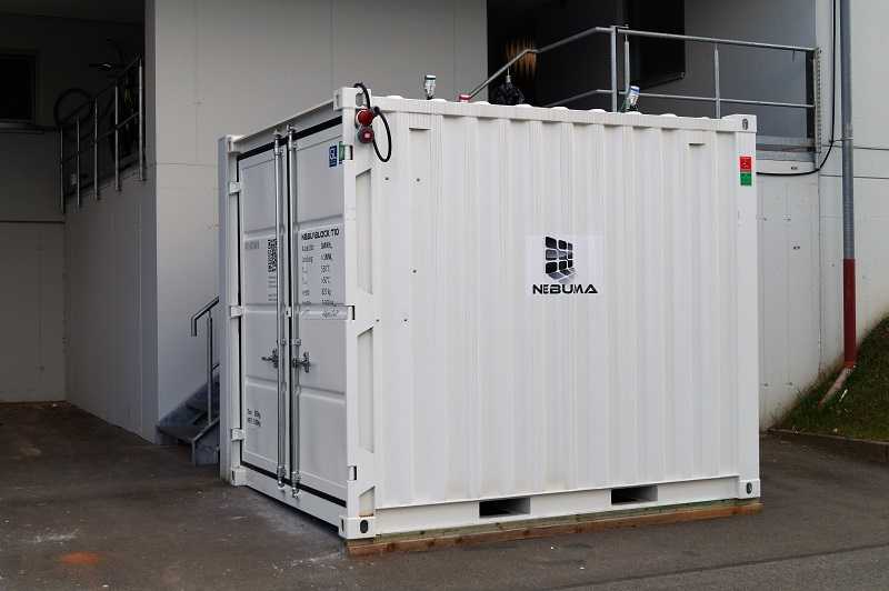 mobile high temperature storage